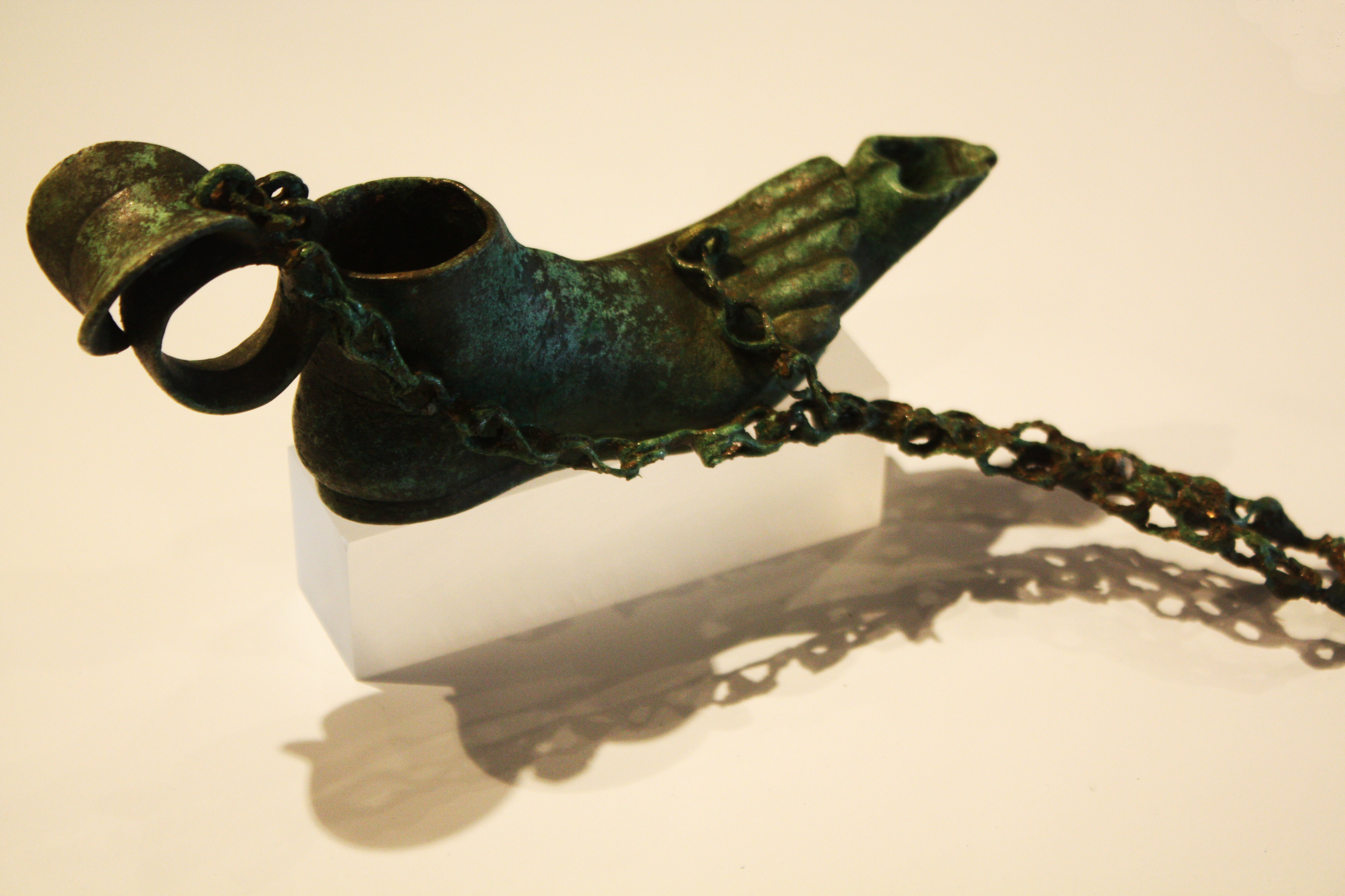 Ancient Roman oil lamp (first century), Königsdorf Germanyy